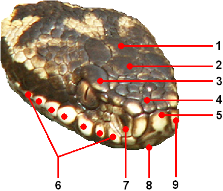 Head of a male Adder (Vipera berus)